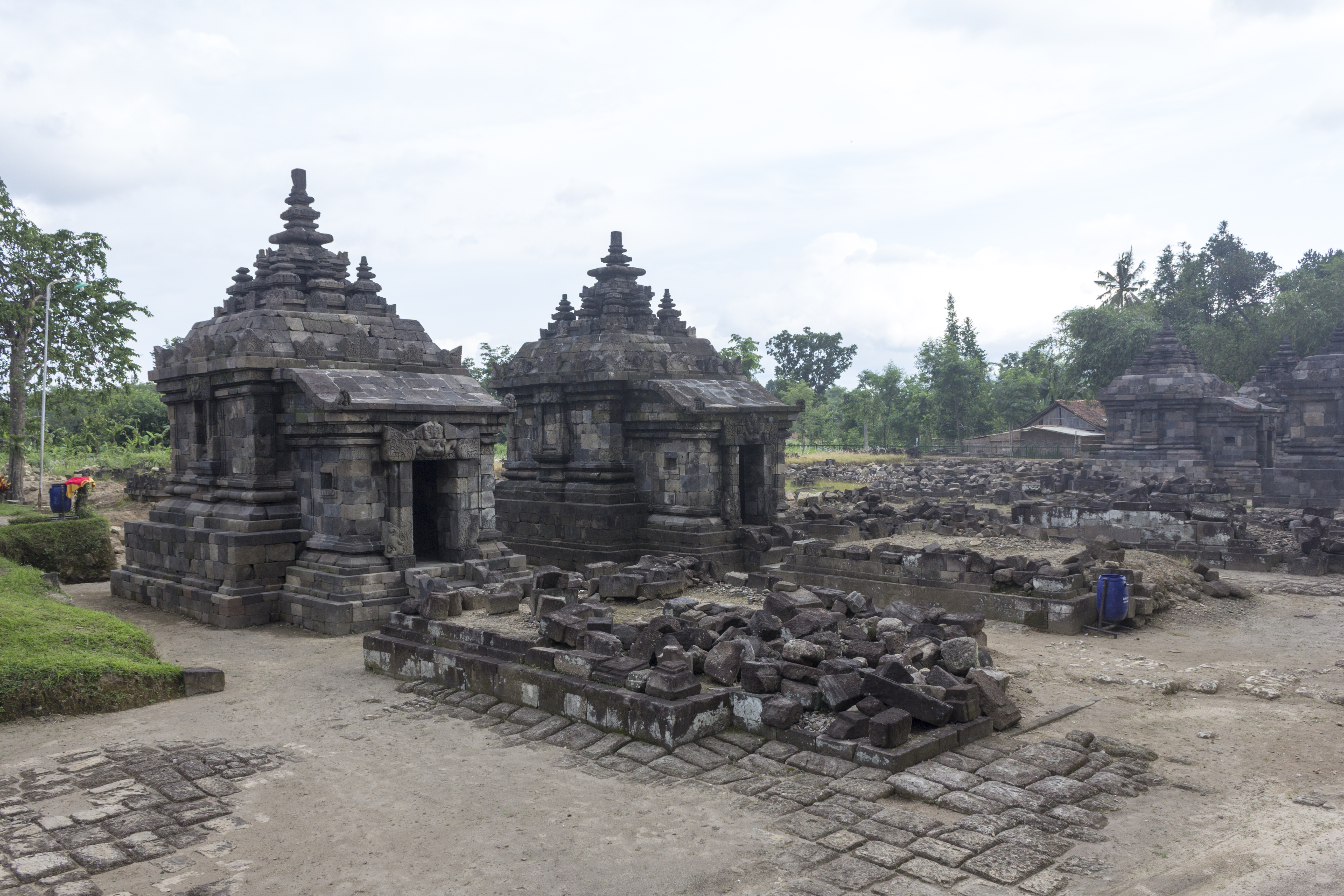 South Plaosan Temple